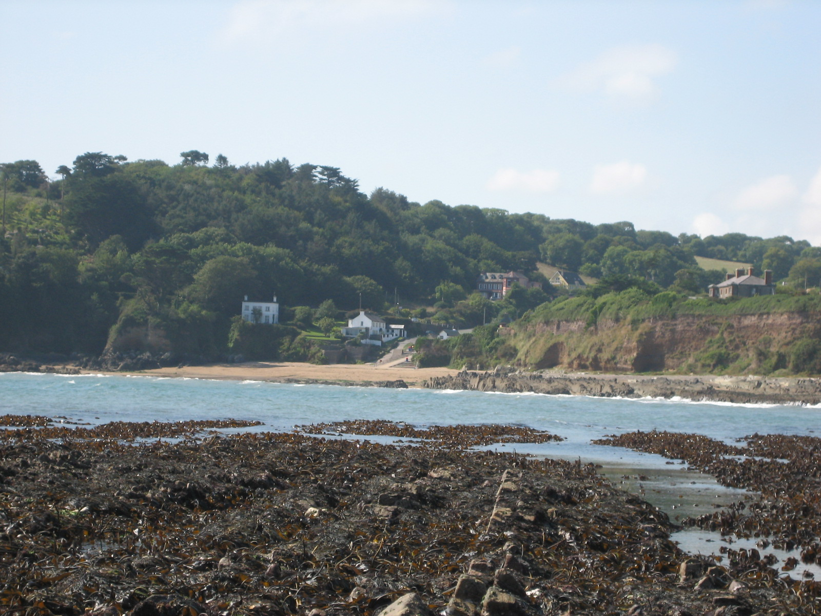 Picture of Myyrtleville Beach, Cork, Ireland, taken from the exposed rocks off Fennells' Bay beach at low tide.